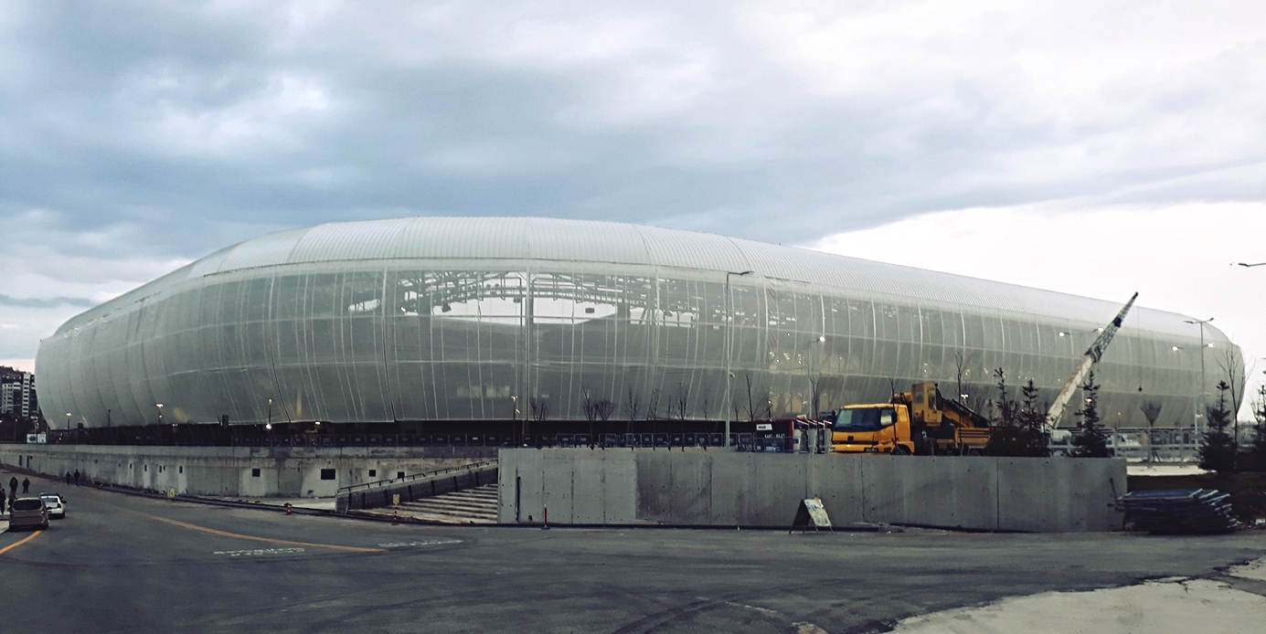 Ankara Eryaman Stadium